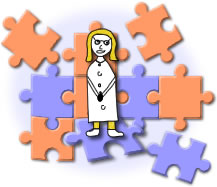 Children Challenging Industry cartoon picture. Created for CIEC Promoting Science, University of York.